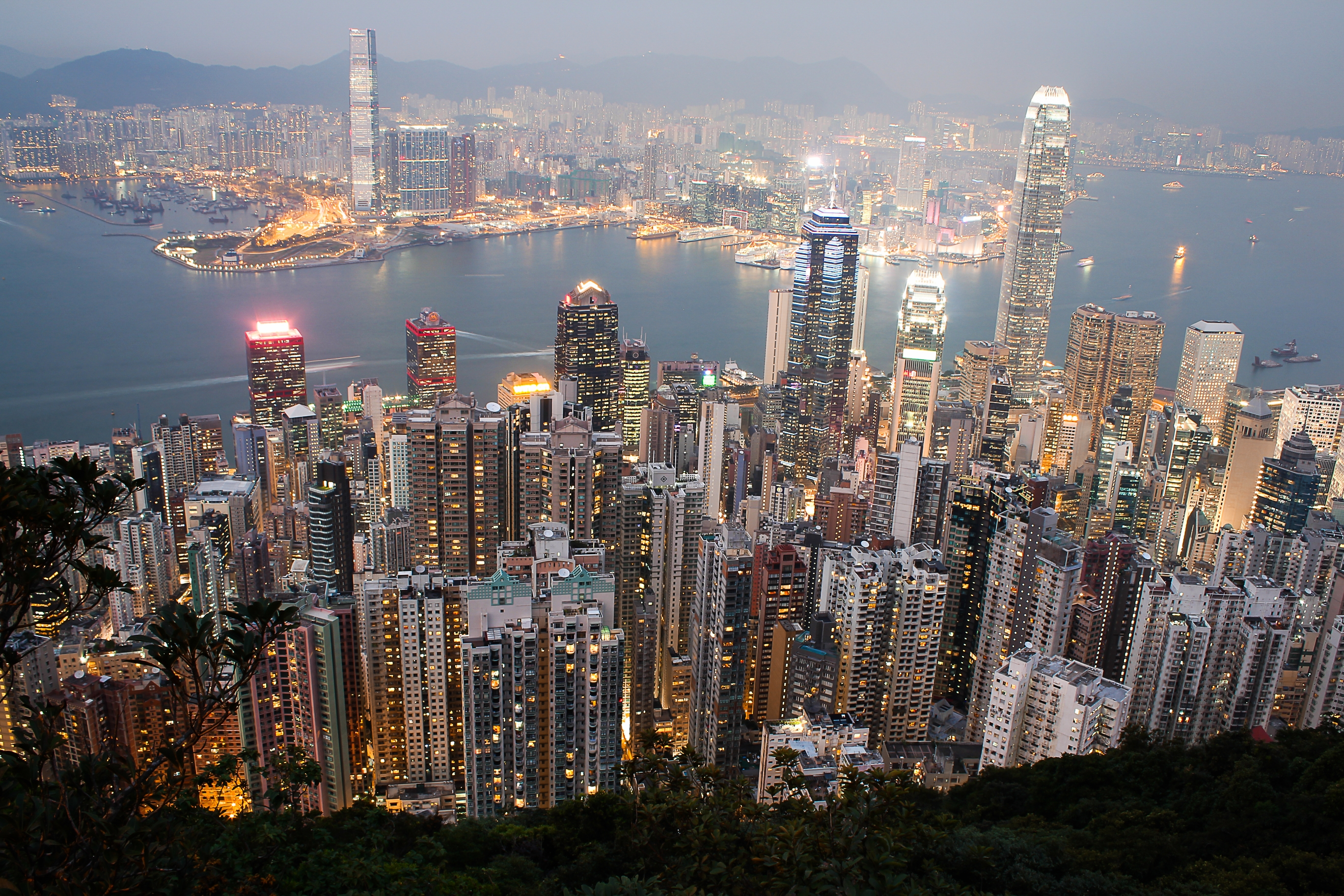 Hong Kong Skyscrapers in 2014